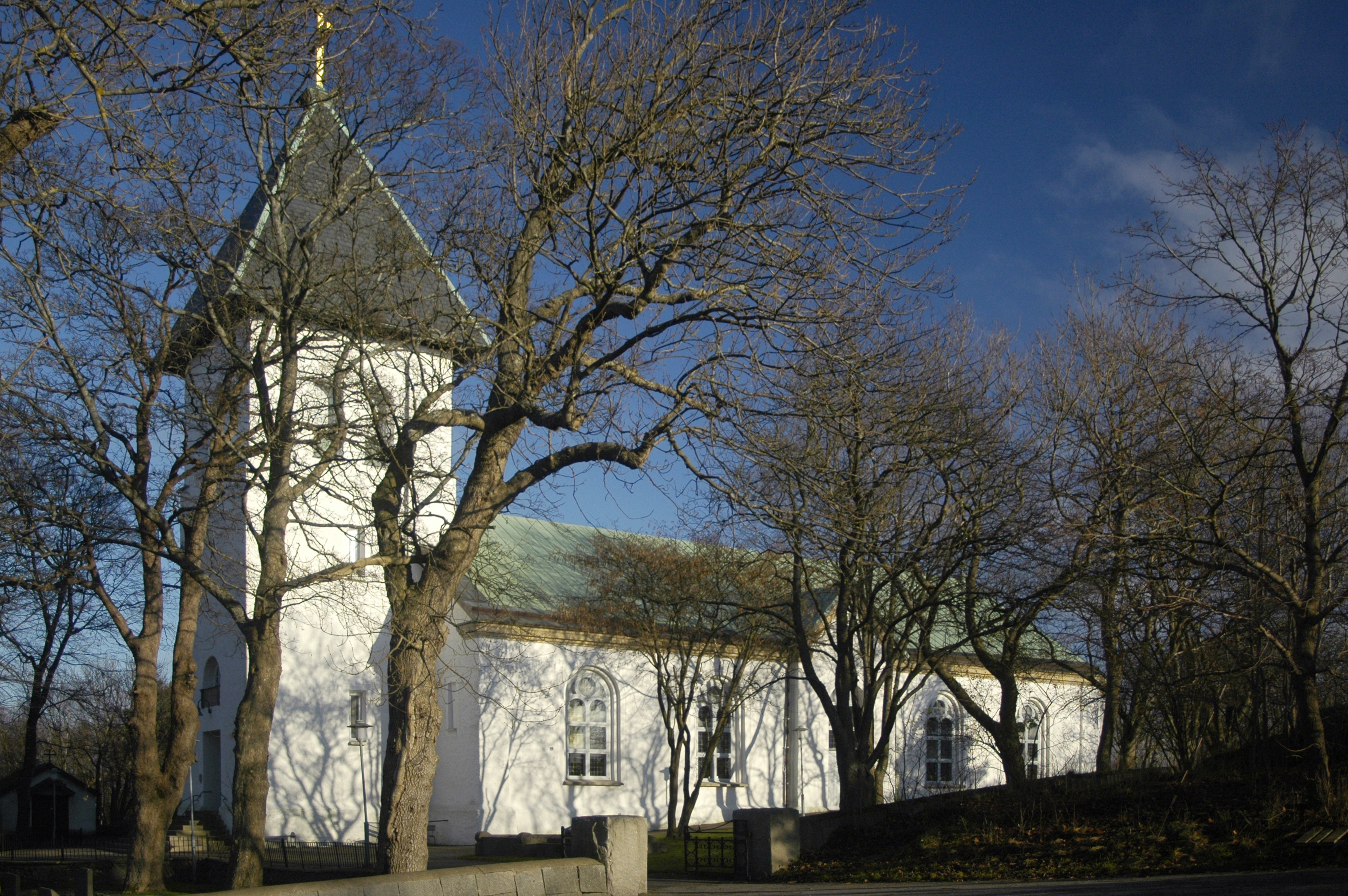 Backa church in November 2011